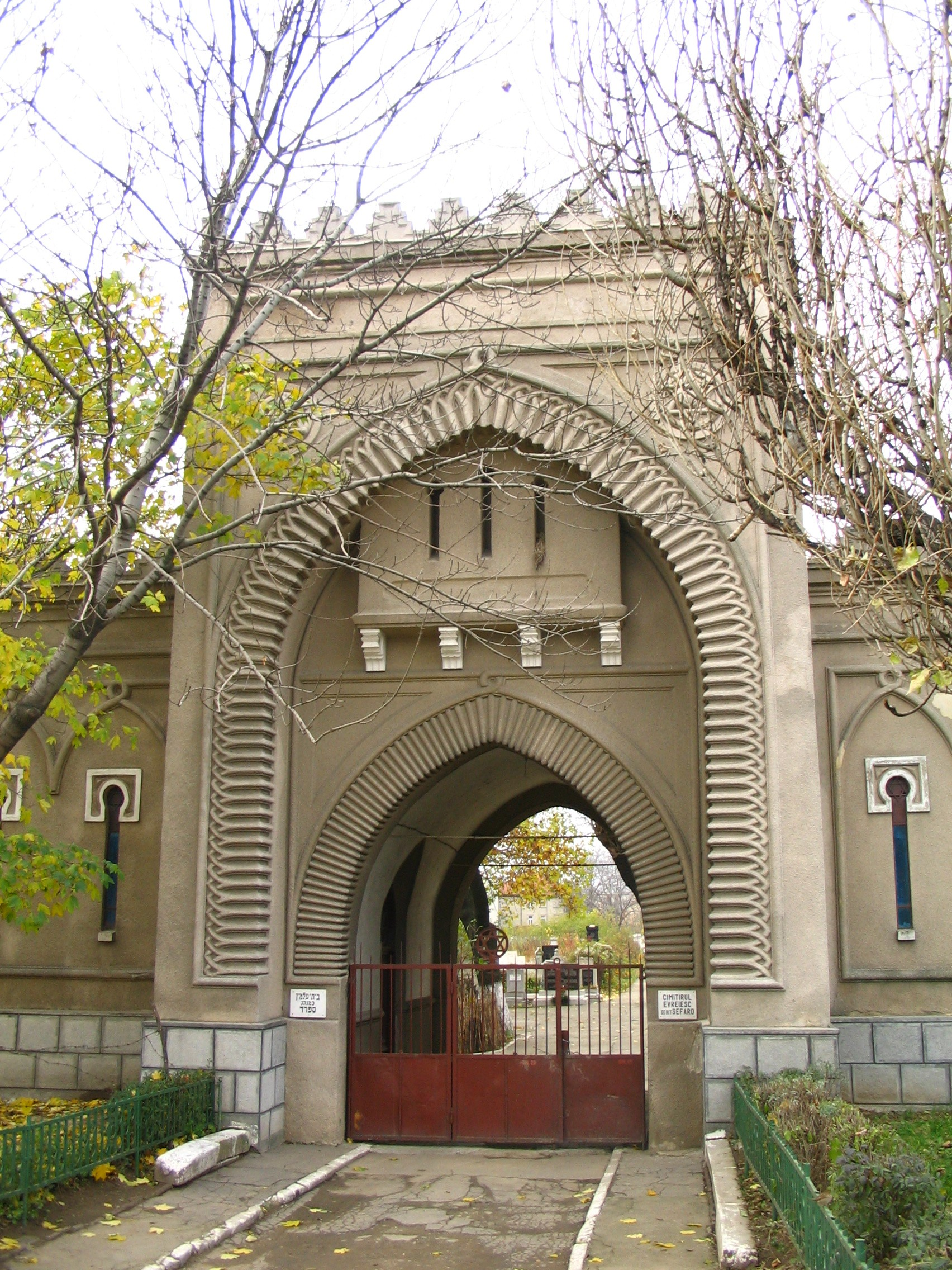 The Gate of the Sephardi Jewish Cemetery in Bucharest, Romania